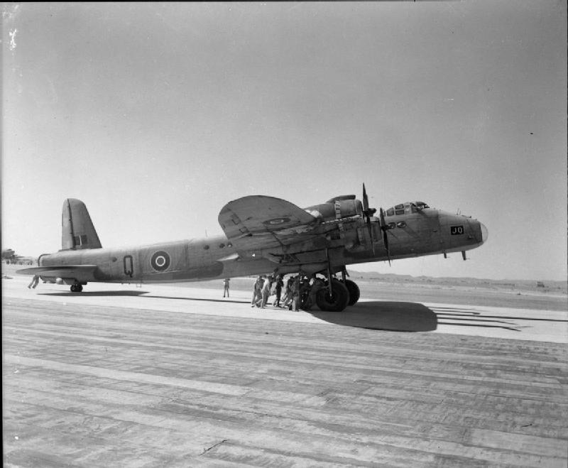 Aircraft in Royal Air Force Service, 1939-1945- Short S.29 Stirling. Stirling Mark V, PK124 ‘Q’, of No. 51 Squadron RAF based at Stradishall, Suffolk, being manhandled into position for loading at Mauripur, Karachi, India, while taking part in repatriation trooping flights between Britain and India.